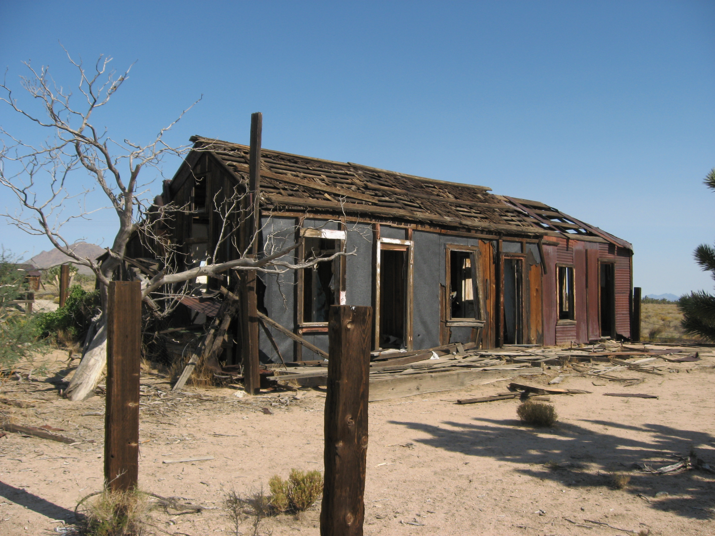 Abandoned bldg in Cima, a small unincorporated community in the Mojave Desert of California